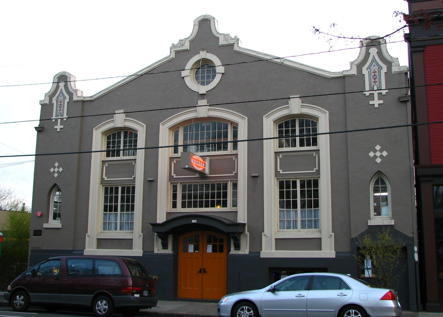 Hibernian Hall at 128 Northeast Russell Street, Portland, Oregon, United States, is listed on the US National Register of Historic Places. The building currently has multiple tenants, including a cafe and music venue.